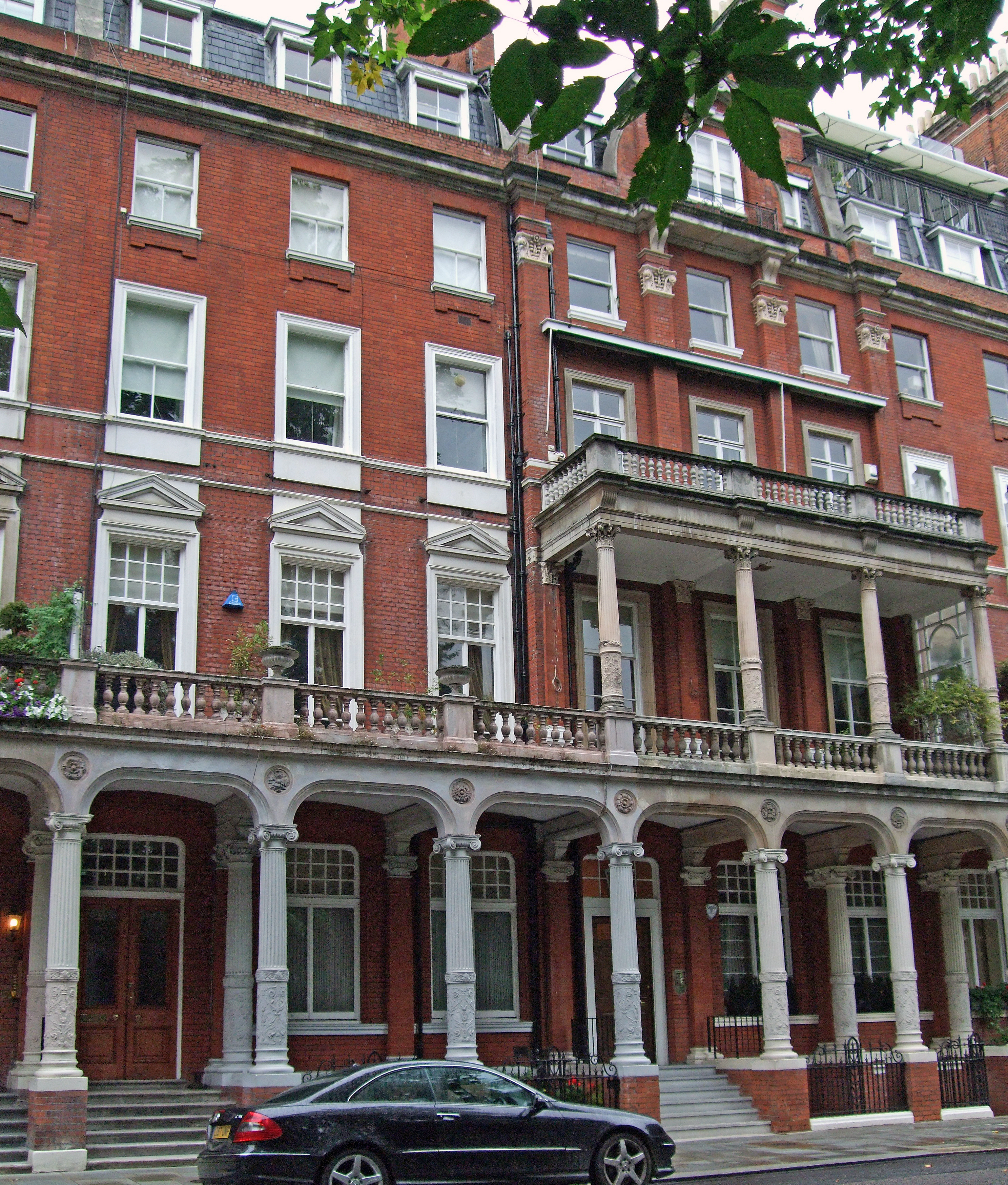 Cadogan Sq London SW1X 0JU north side August 2008